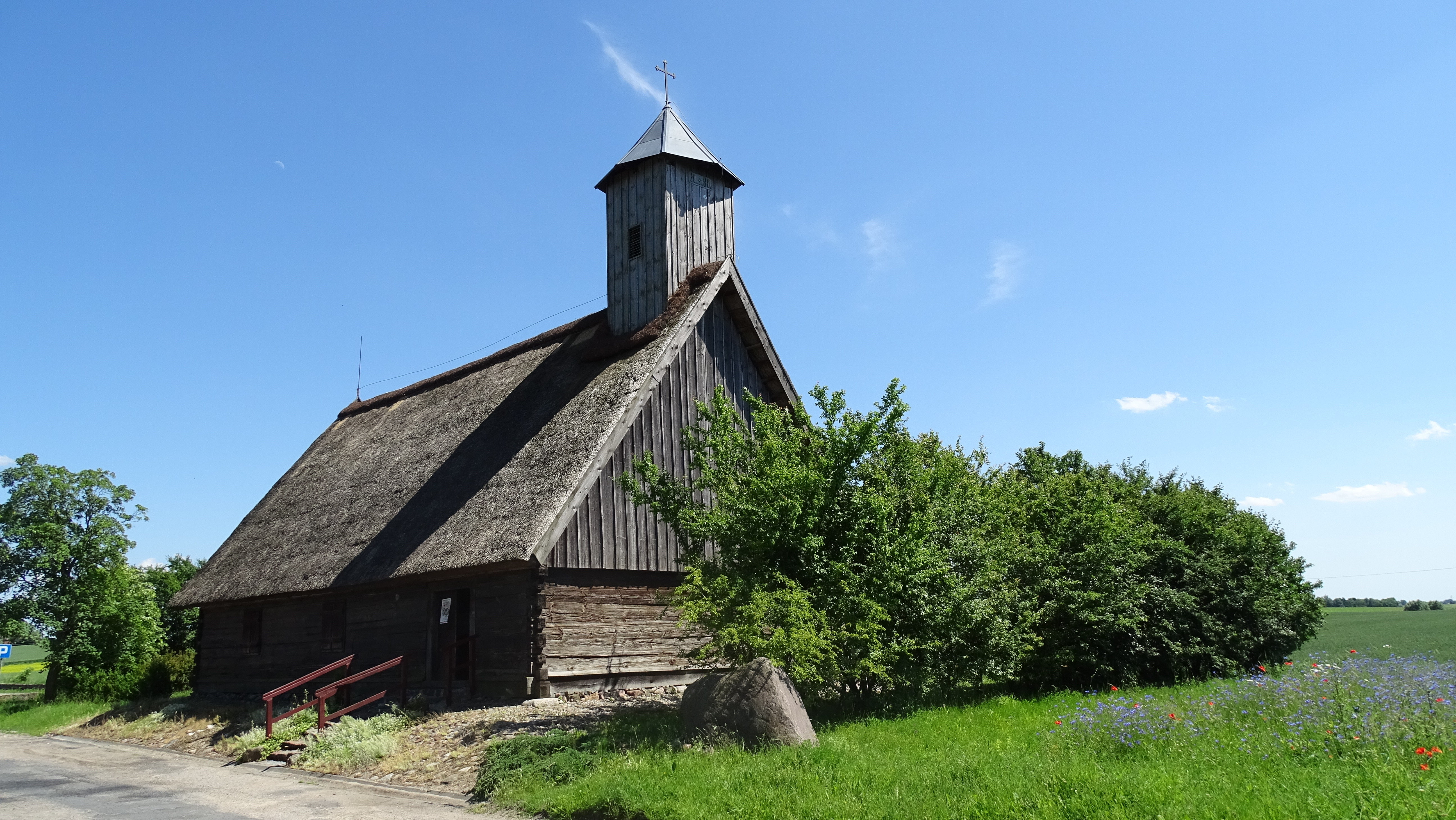 Jarantowice, Wąbrzeźno County, Poland. Church of Saint Maximilian Kolbe. Built in the 18th century as a Protestant. Currently Catholic.